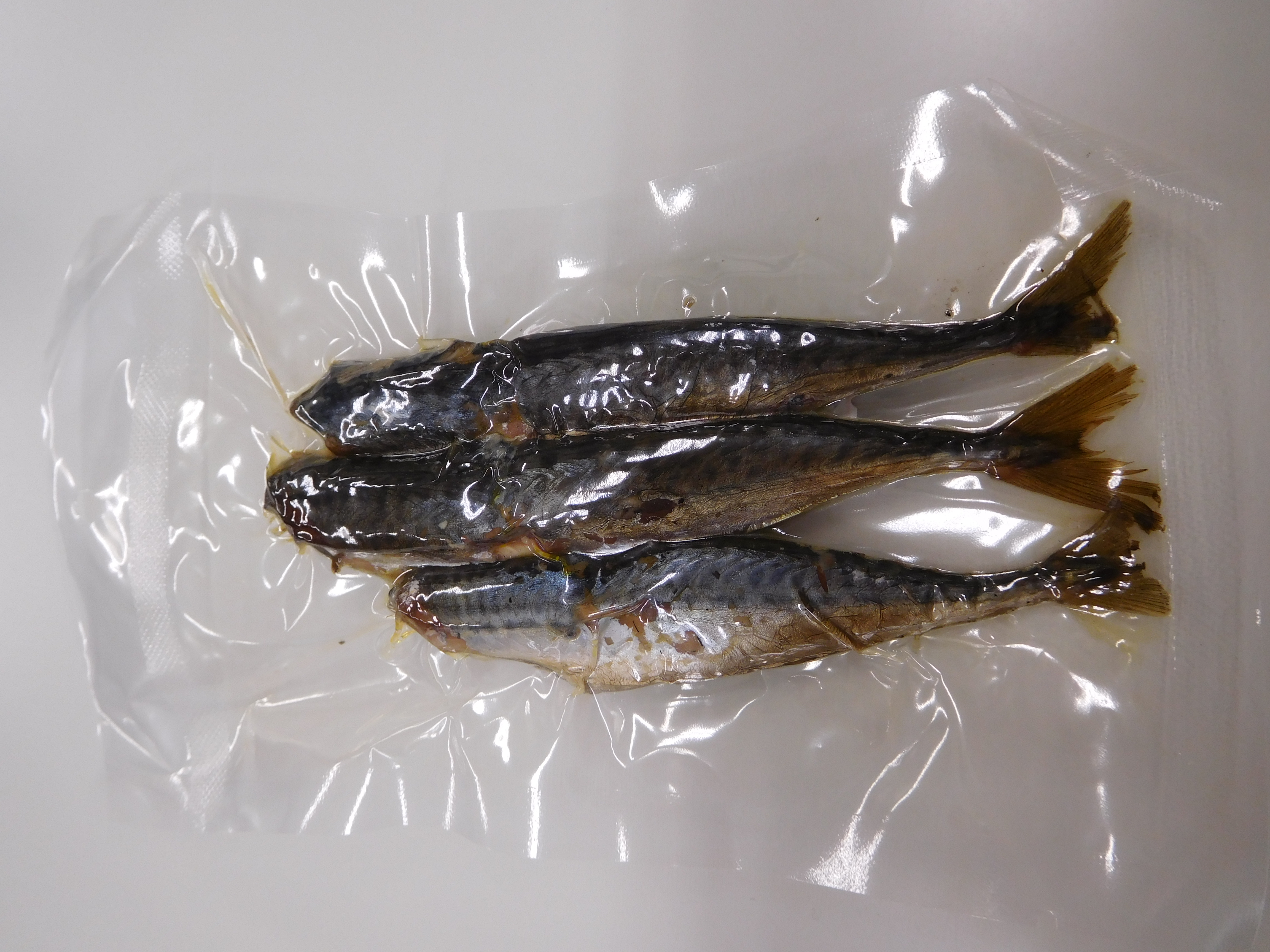 These are smoked mackerel produced in Kajika-cho, Owase city, Mie prefecture, Japan. These are called "Kajika no Aburi".